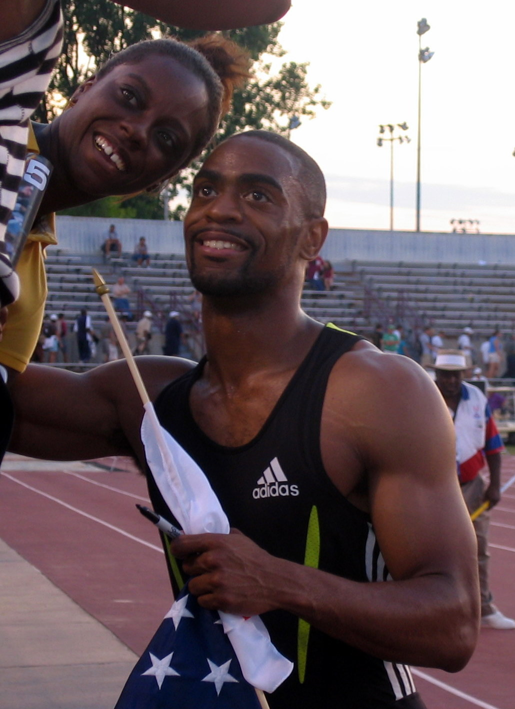 Photo taken on June 22, 2007 live on the second day of competition at the 2007 AT&T USA Outdoor Track and Field Championships in Indianapolis, Ind.